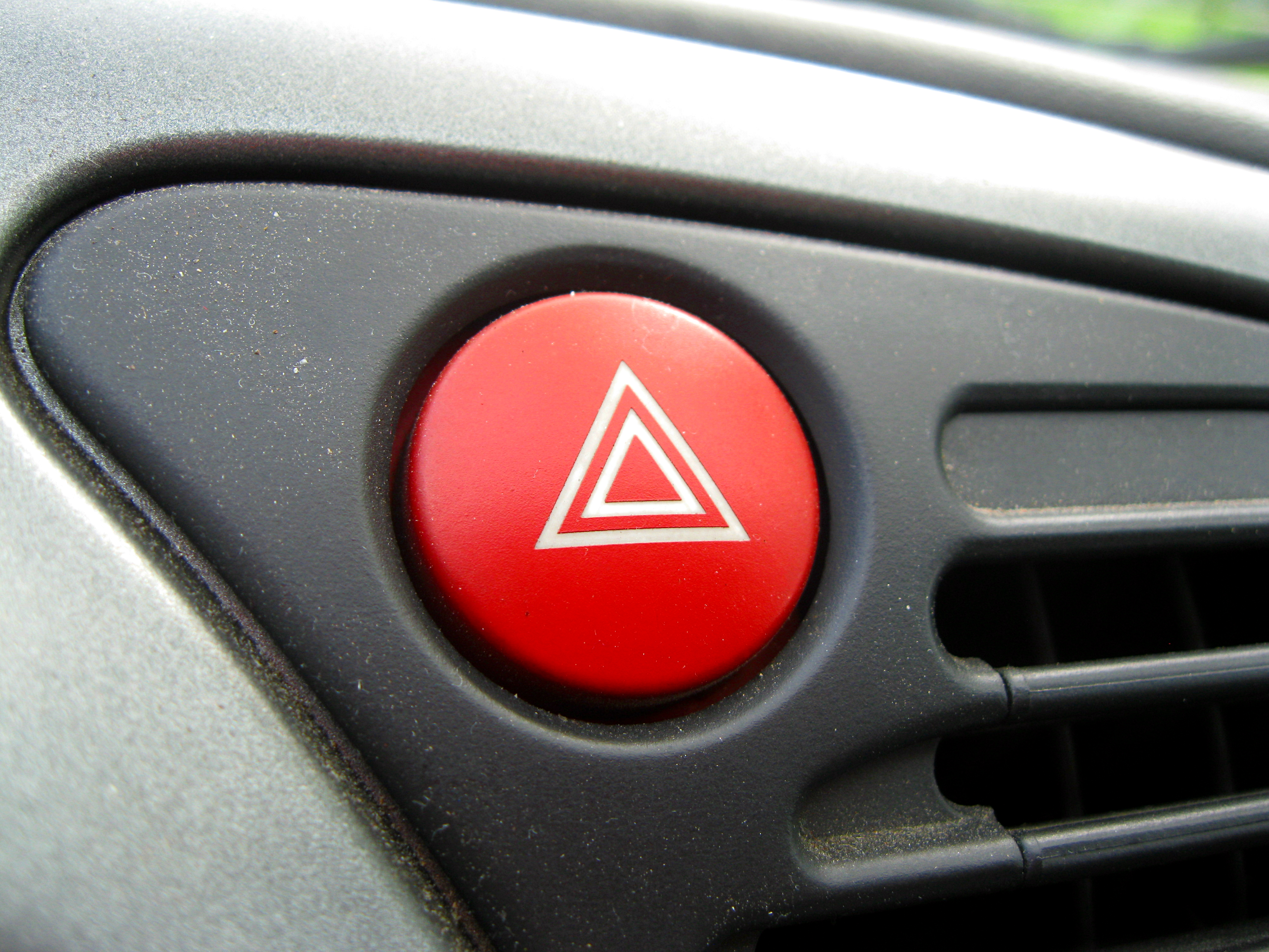 Car hazard warning flasher button.